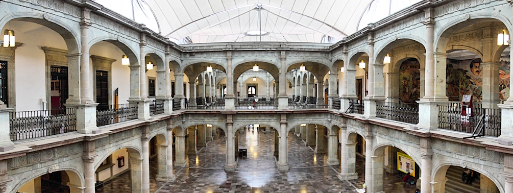 Interior of the former Oaxaca State Governmental Palace. Oaxaca, Mexico